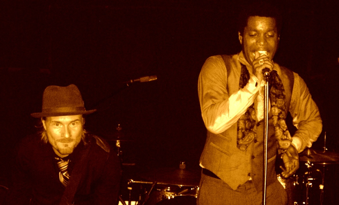 Ty Taylor and Nalle Colt playing live at Fibbers, York, 8th July 2011